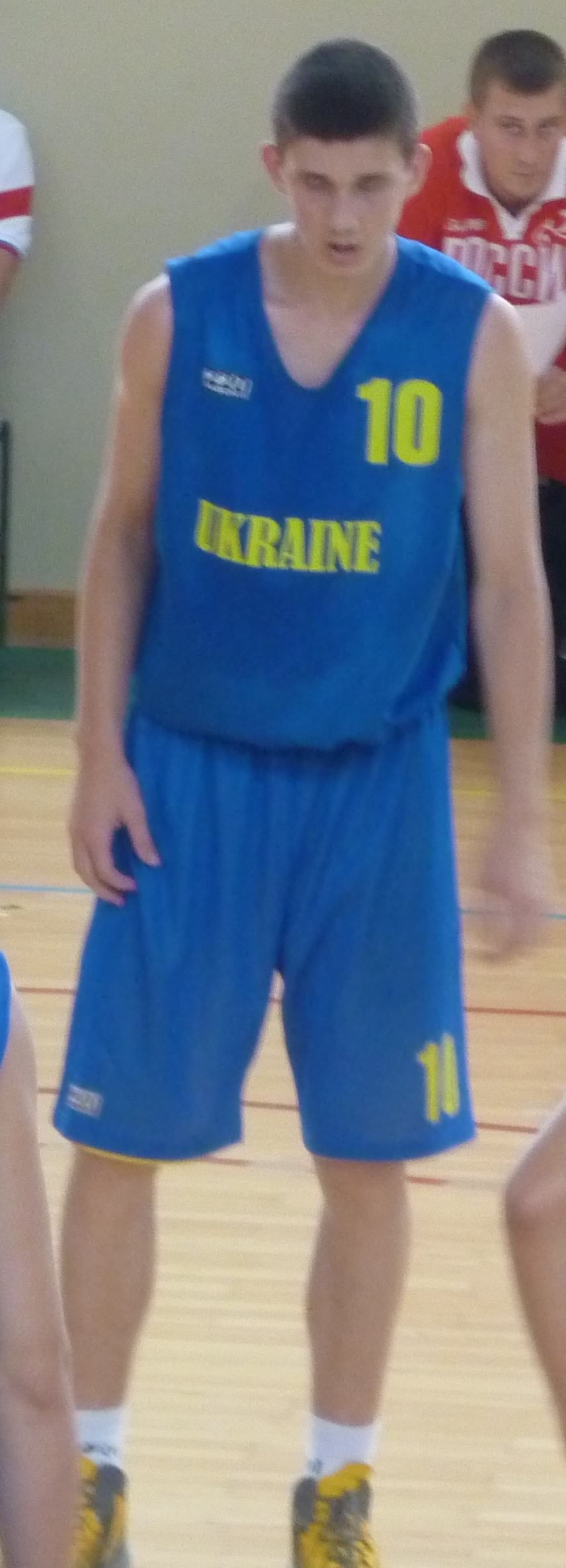 Ukrainian basketball player Sviatoslav Mykhailiuk at the international U16 tournament in Riom, France.